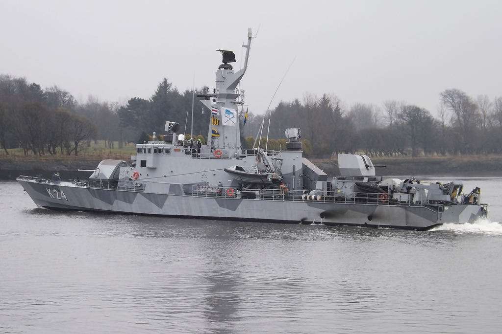 K24 HSwMS Sundsvall Göteborg-class Corvette of the Swedish Navy.